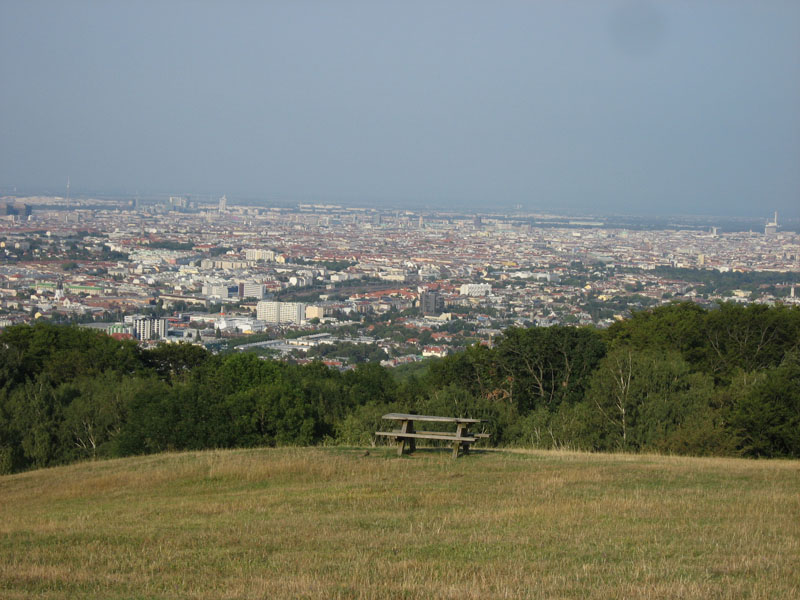 Vienna viewn from Lainzer TiergartenBoarisch: Wean fu om, fum Lainza Diagoatn aus gseng